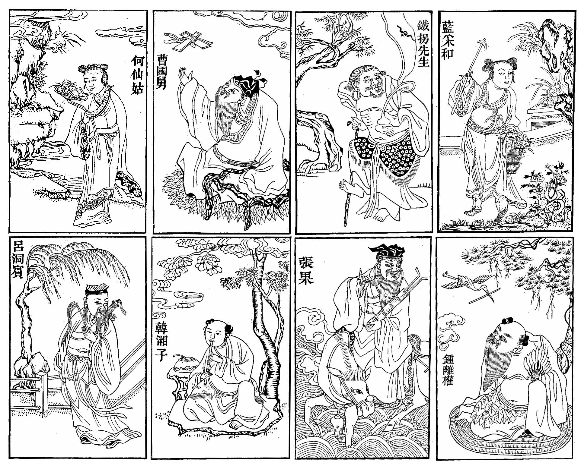 Eight Immortals